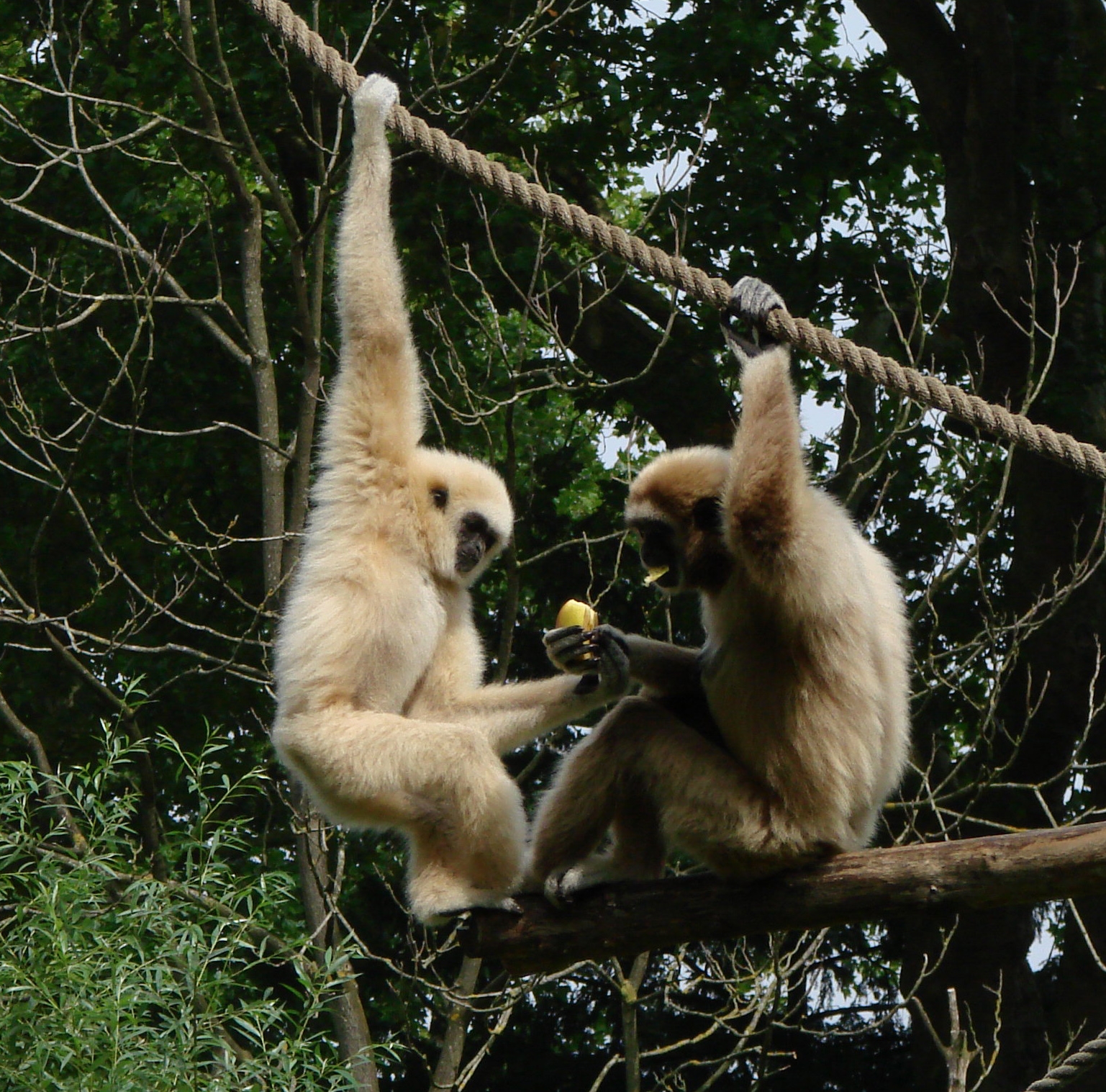 A mother white-handed gibbon (Hylobates lar) and her young, eating a fruit.Zoo d'Amiens.